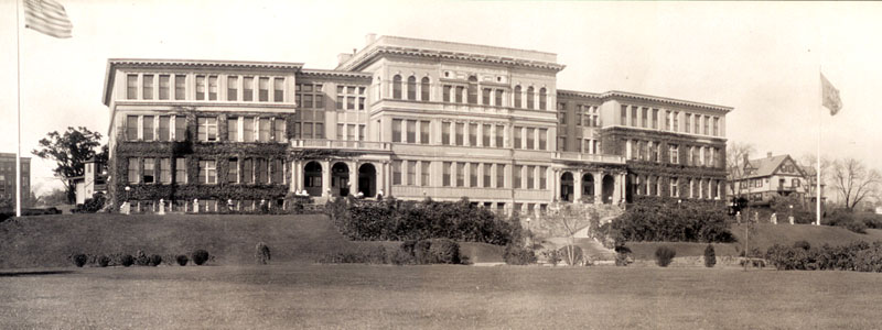 Rhode Island Normal School, c. 1909